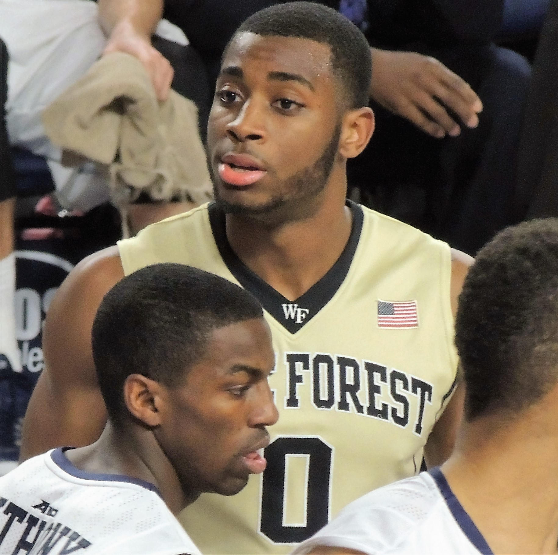 Wake Forest basketball player Codi Miller-McIntyre